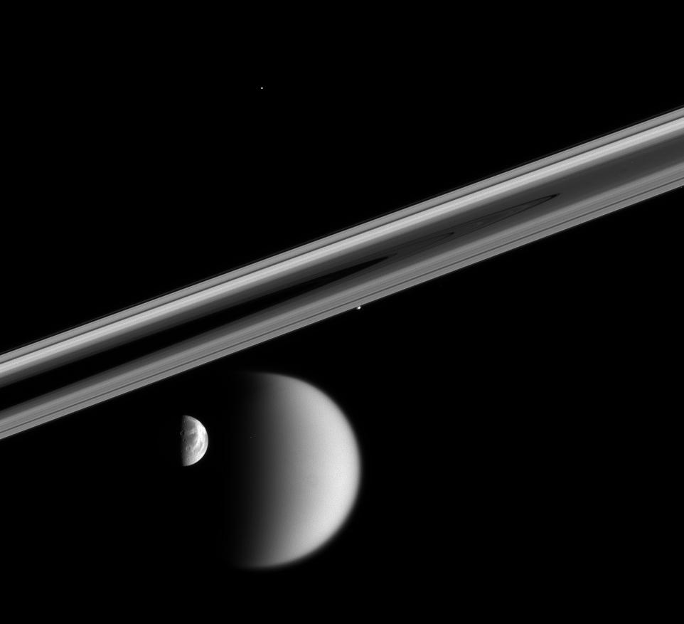 Four Saturn moons as seen from Cassini. Dione transits Titan by the rings of Saturn. Prometheus transits the rings. In a rare moment, the Cassini spacecraft captured this enduring portrait of a near-alignment of four of Saturn's restless moons. Timing is critical when trying to capture a view of multiple bodies, like this one. All four of the moons seen here were on the far side of the rings from the spacecraft when this image was taken; and about an hour later, all four had disappeared behind Saturn. Seen here are Titan (5,150 kilometers, or 3,200 miles across) and Dione (1,126 kilometers, or 700 miles across) at bottom; Prometheus (102 kilometers, or 63 miles across) hugs the rings at center; Telesto (24 kilometers, or 15 miles across) is a mere speck in the darkness above center. The image was taken in visible light with the Cassini narrow-angle camera on Oct. 17, 2005 at a distance of approximately 3.4 million kilometers (2.1 million miles) from Dione and 2.5 million kilometers (1.6 million miles) from Titan. The image scale is 16 kilometers (10 miles) per pixel on Dione and 21 kilometers (13 miles) per pixel on Titan.